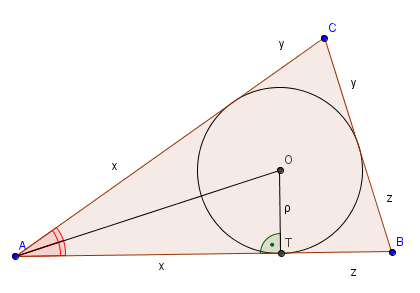 Proof for the law of cotangents